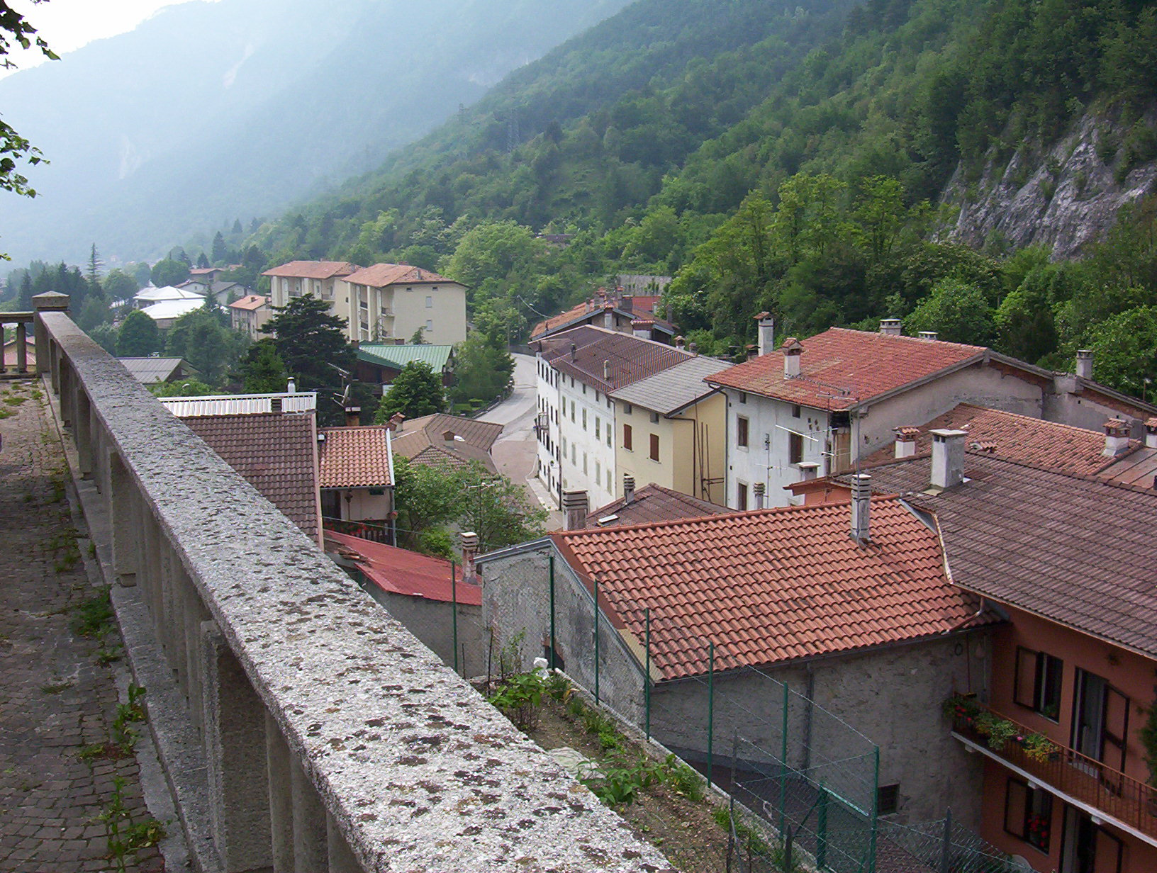 A panoramic view of Chiusaforte (UD), Italy.